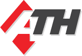 logo